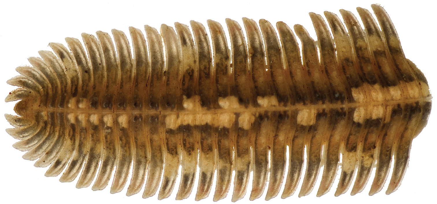 Pseudodesmus cf. variegatus from Laos, Vientiane Prov., Phou Khao Khouay, N 18, 20, 369', E 102, 48, 523', 7–800 m, 28–31.v.2008, A. Solodovnikov & J. Pedersen leg. (ZMUC), posterior part of body. Length of fragment 23 mm.